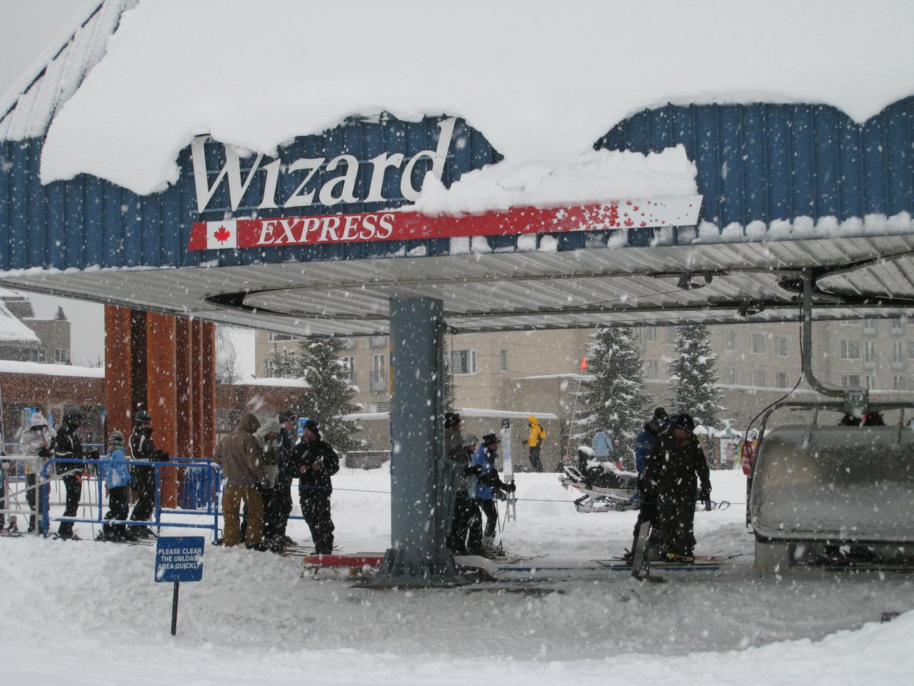 Wizard Express Lift at Whistler-Blackcomb Ski Resort